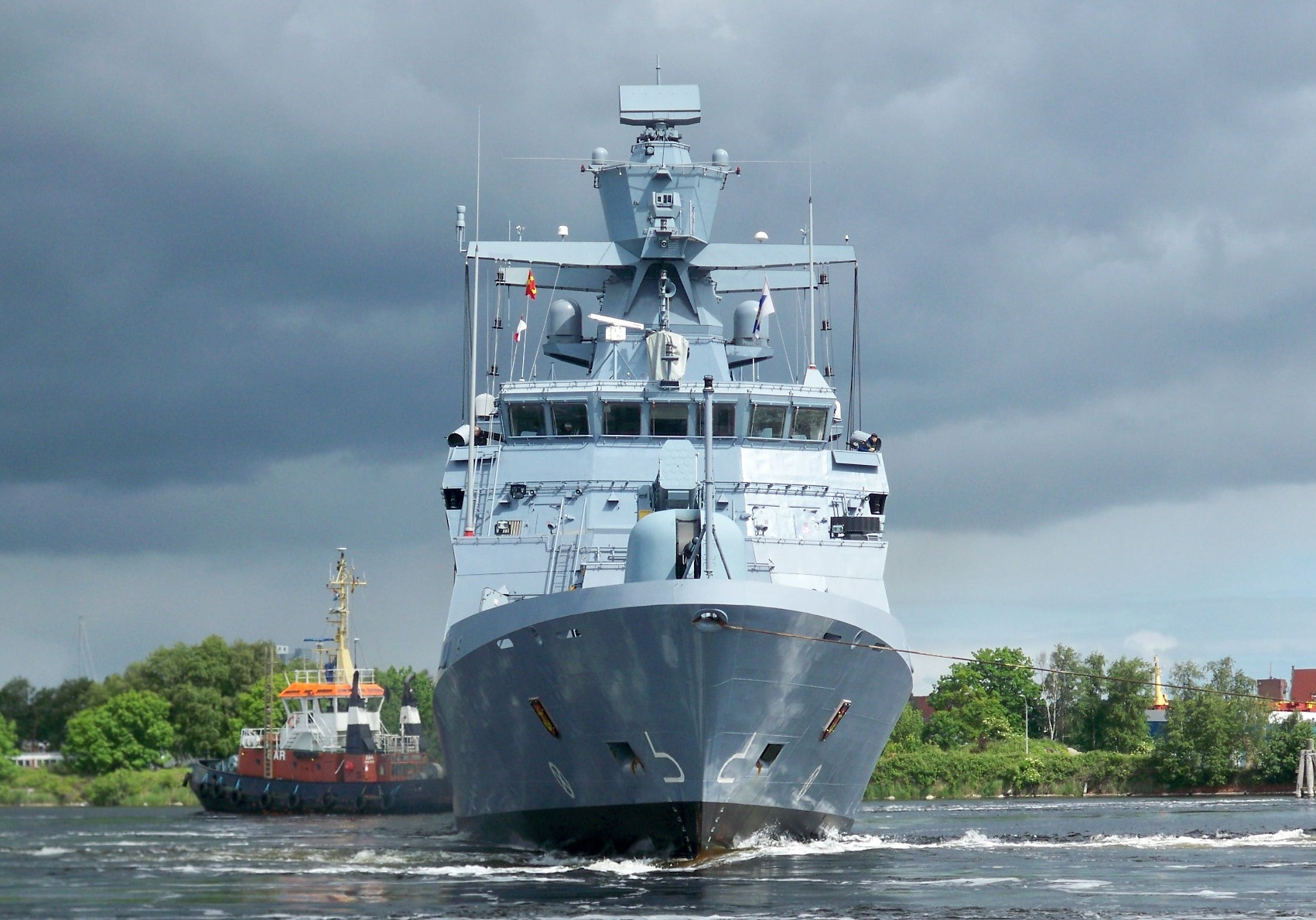 Not yet commissioned corvette Ludwigshafen am Rhein (F 264) at the degaussing range in Wilhelmshaven